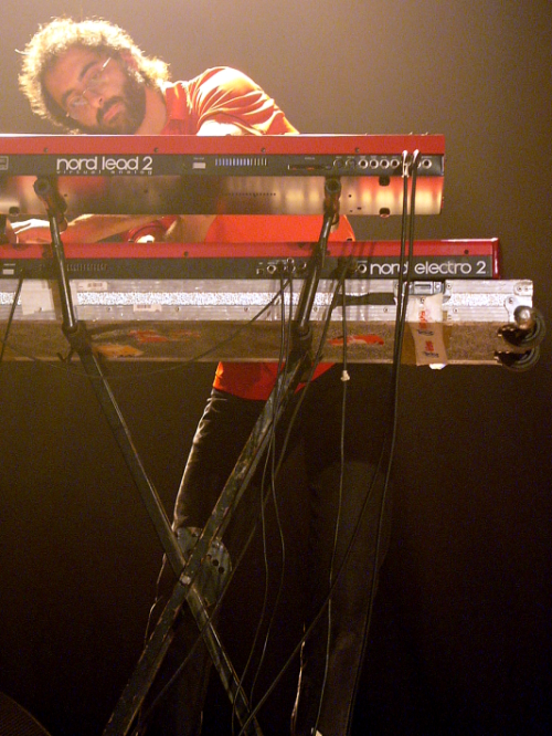 Majorcan keyboard player Jaume Manresa performing live with Antònia Font in Sueca